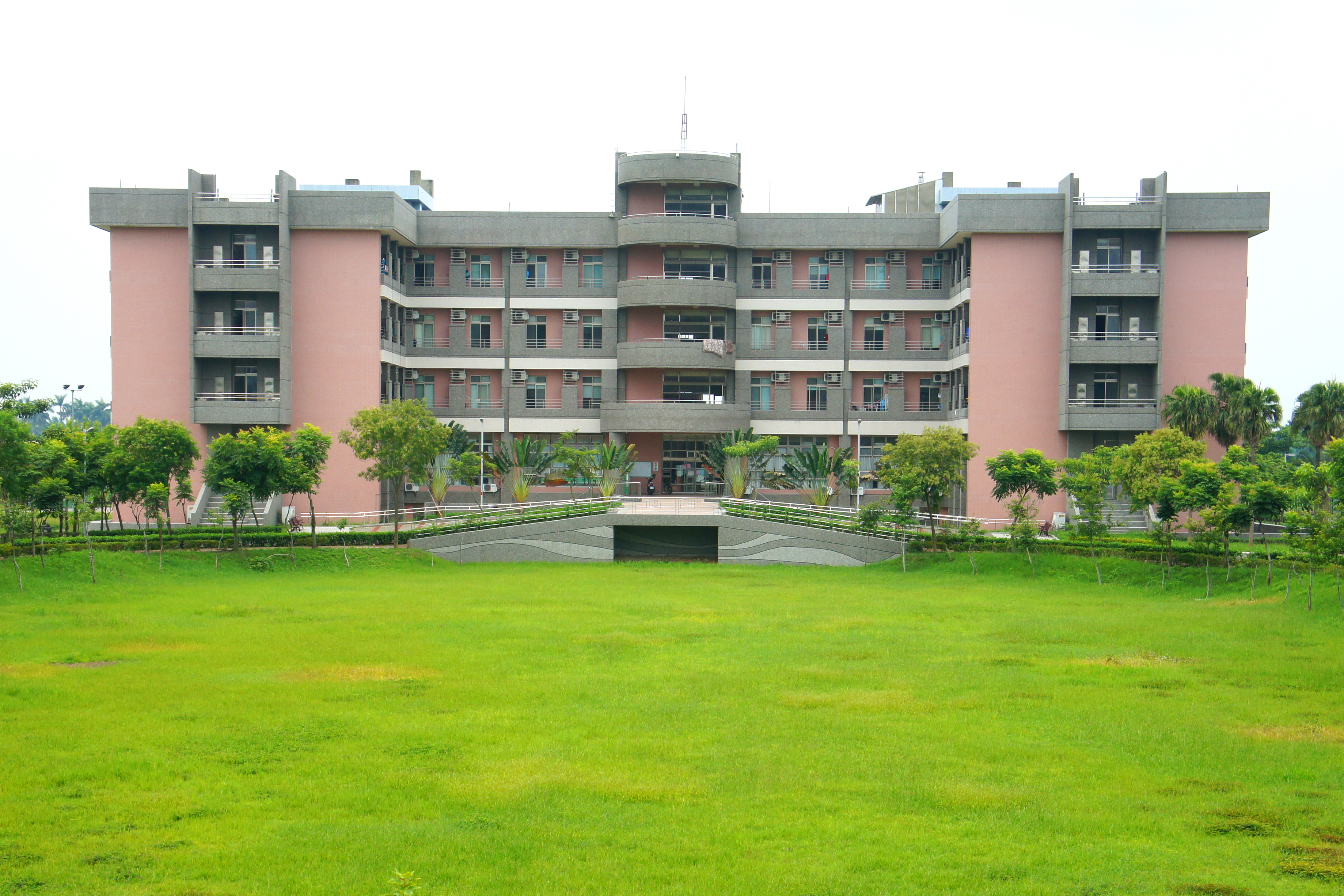 Dormitory of the Chung-Jen Junior College of Nursing, Health Science and Management (Dalin Campus), Taiwan